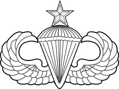 Air Force Parachutist Pin